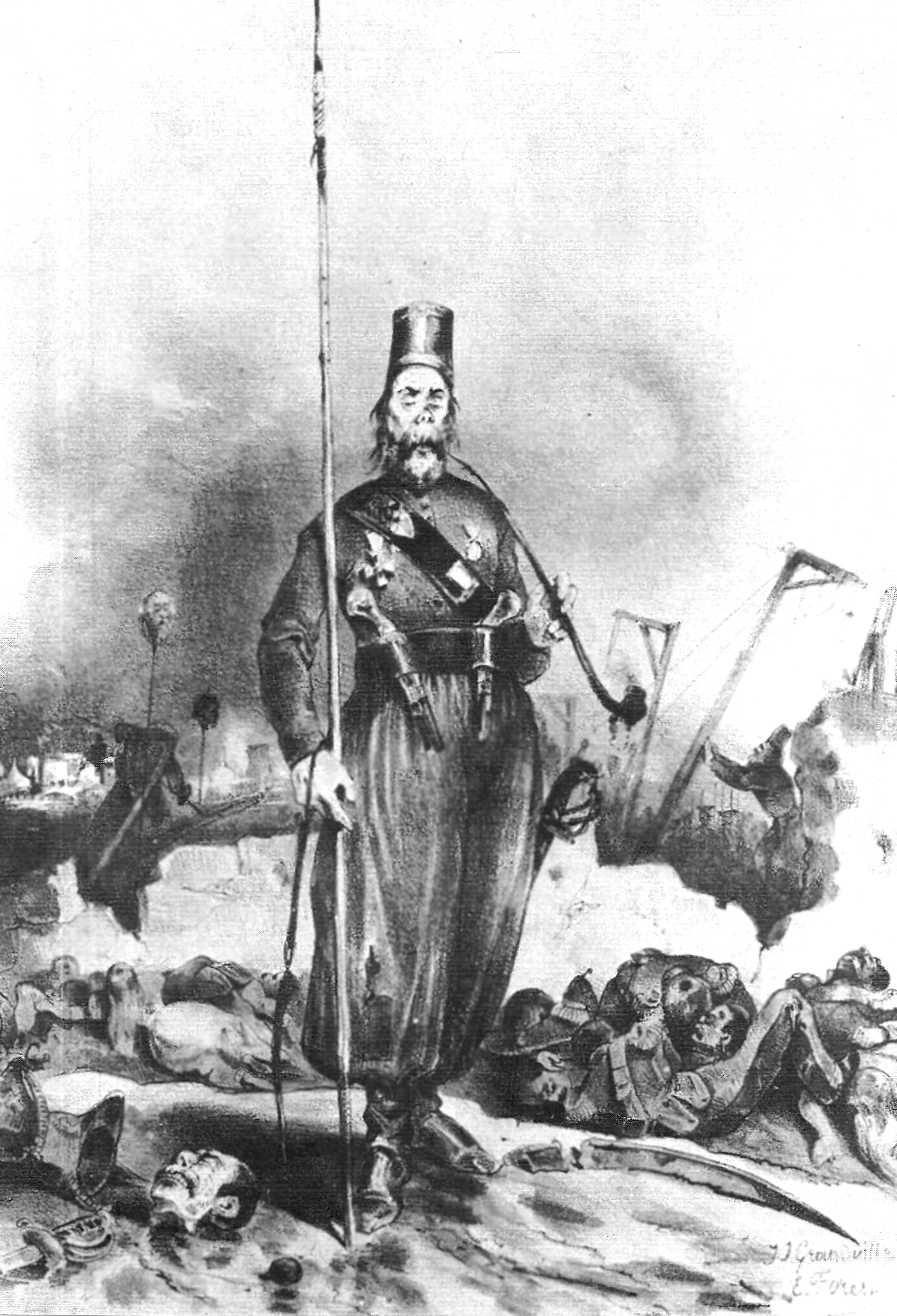 L'ordre règne à Varsovie (Order reigns in Warsaw), a 1831 plate by Jean Ignace Isidore Gérard on the fall of Warsaw